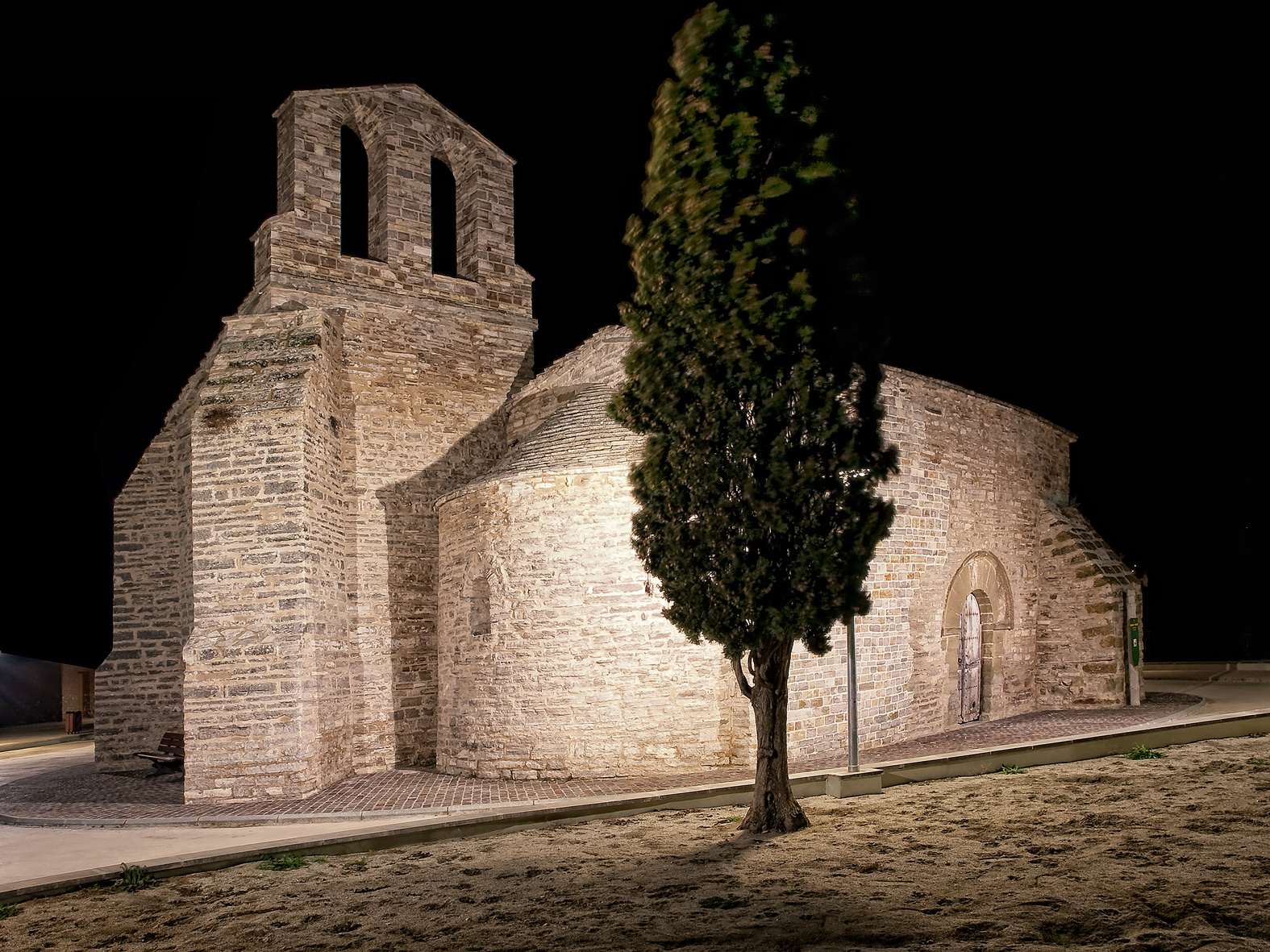 Sant Antoli church of Ribera d'Ondara (Catalonia, Spain)